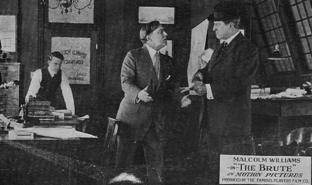 Malcolm Williams (center) and House Peters, Sr. (right) in The Brute - post card (cropped)